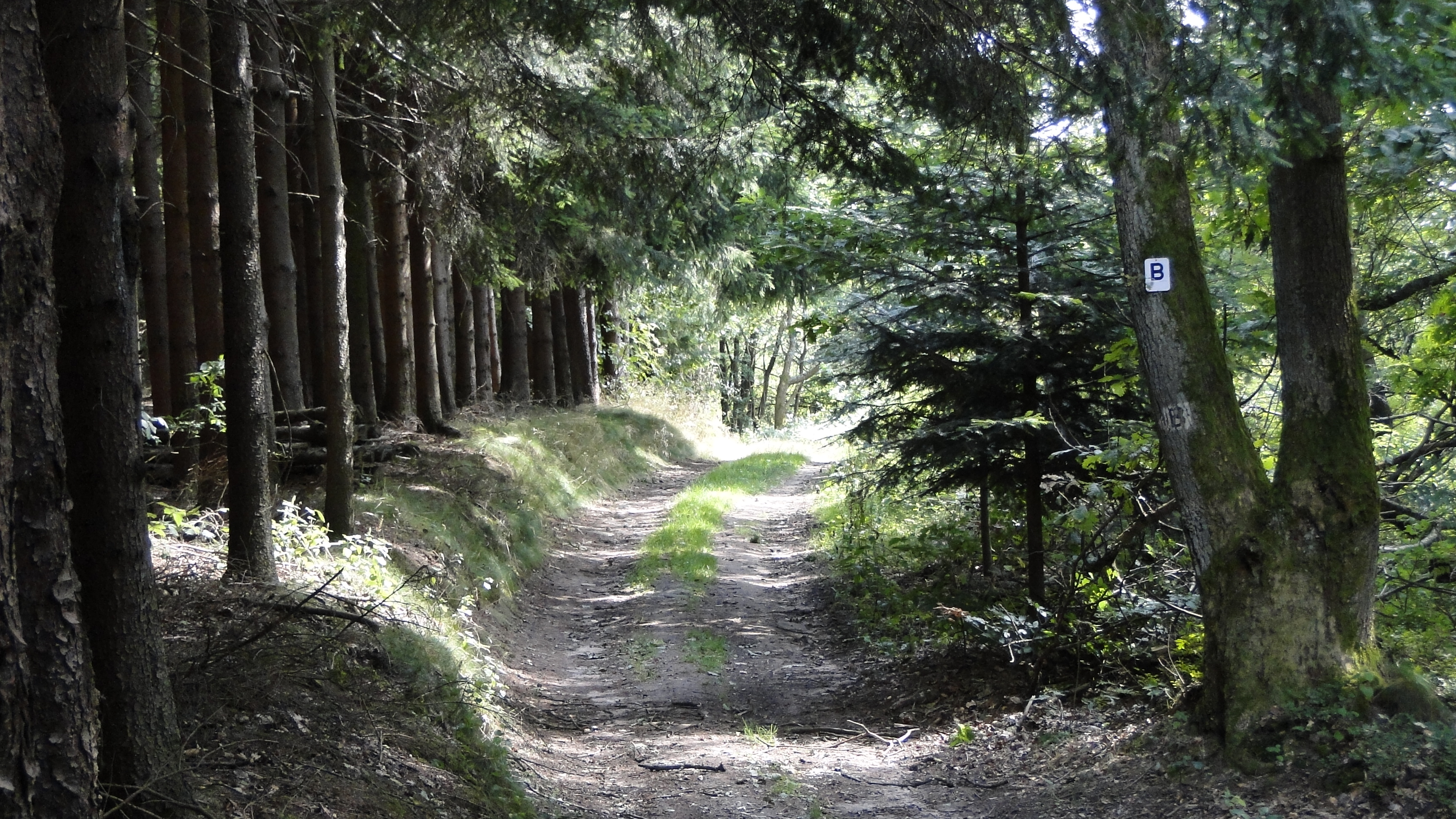 Birkenhainer Straße near Ruppertshütten, Lohr, Bavaria, Germany with waysign